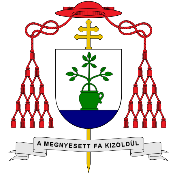 Coat of arms of Hungarian Cardinal László Lékai, Archbishop of Esztergom Elements by: User:SajoR